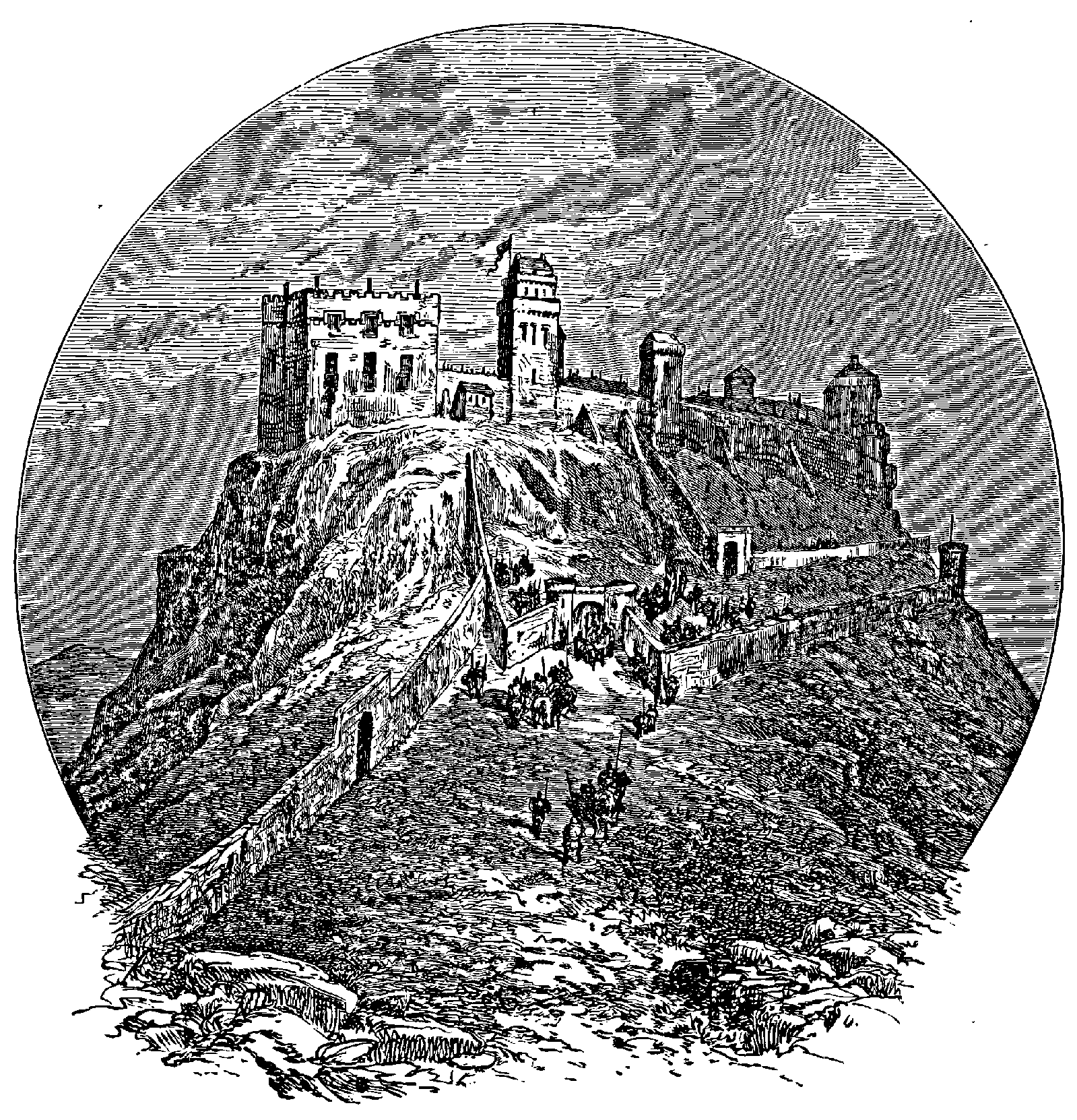 Edinburgh Castle as it looked before the siege of 1573.